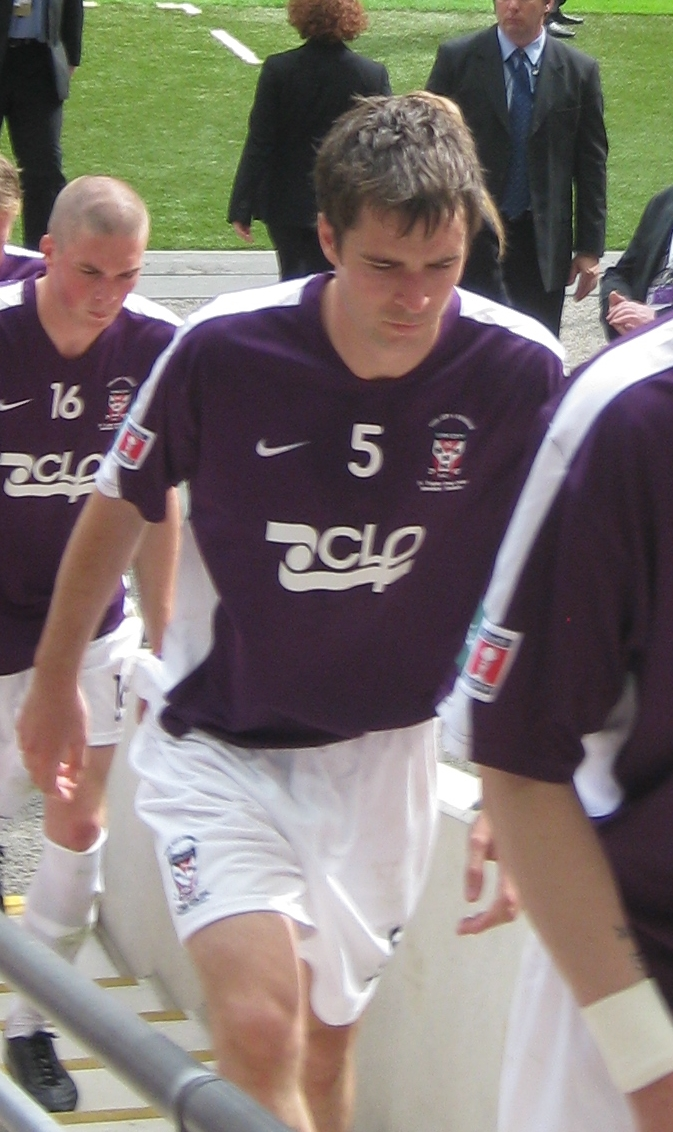 David McGurk after playing for York City against Stevenage Borough at Wembley Stadium, London on 9 May 2009